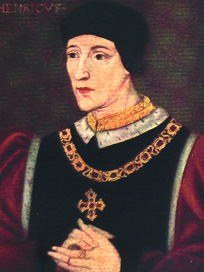 Henry VI of England